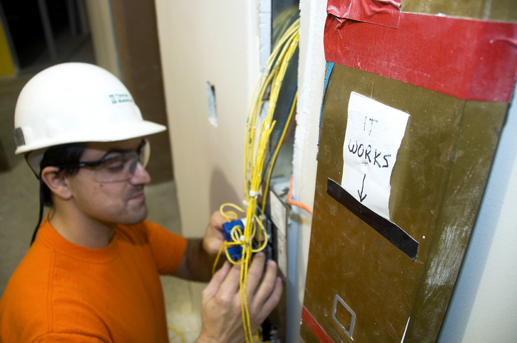 An electrictian installs wiring for the elevators in the basement.